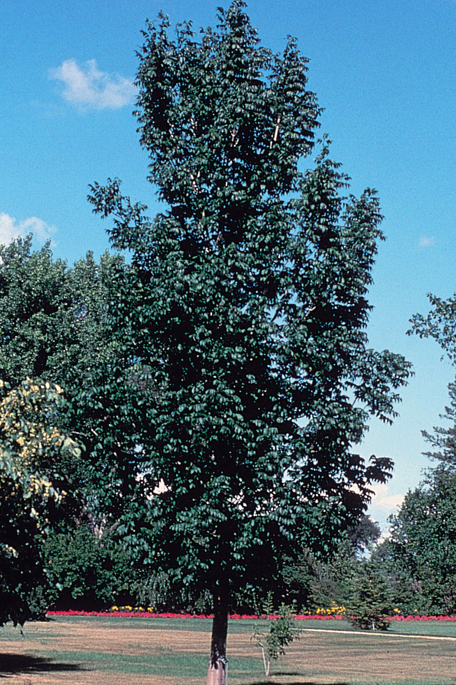 Fraxinus nigra Marshall - black ash